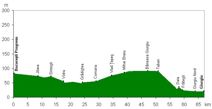 elevation profile of the railway track Bucuresti-Giurgiu